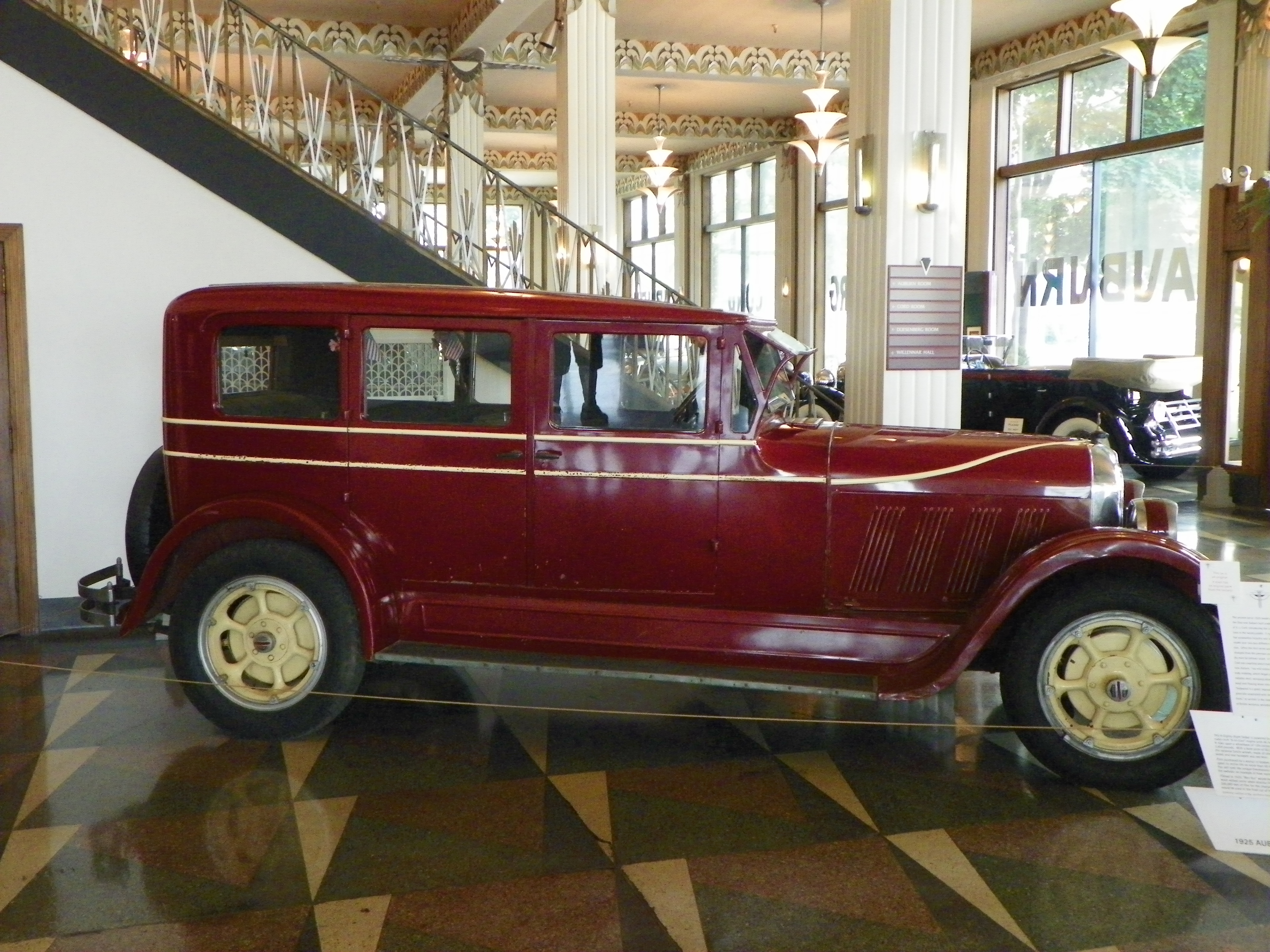 1925 Auburn 8-Eighty-Eight with optional steel wheelsAuburn Cord Duesenberg Museum